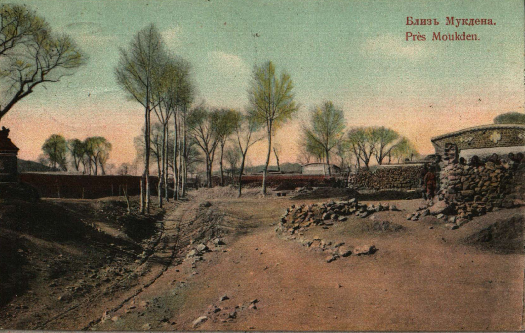 Postcard